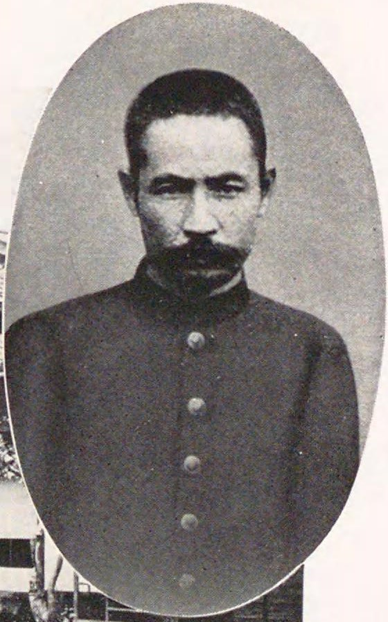 Natsume Soseki as a professor of Fifth Higher School, Kumamoto (1896-1903).